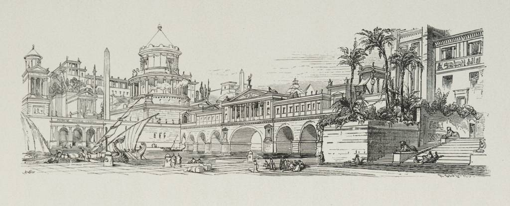 Line drawing of a scene from Alexandria in ancient times.